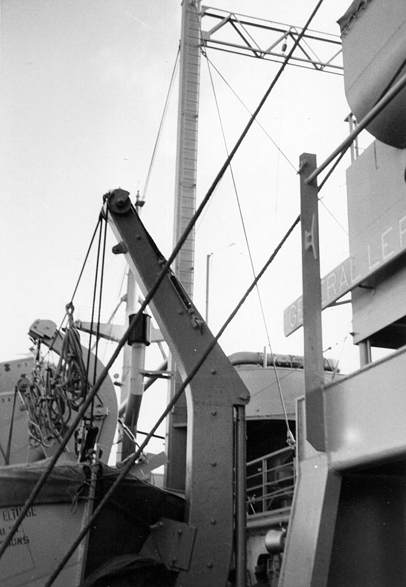 Photo taken aboard the USS General LeRoy Eltinge while used as a transport ship during the Korean War. Photo by PFC Joseph Richard Carr, U.S. Army (deceased).